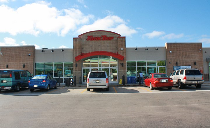 Kwik Trip